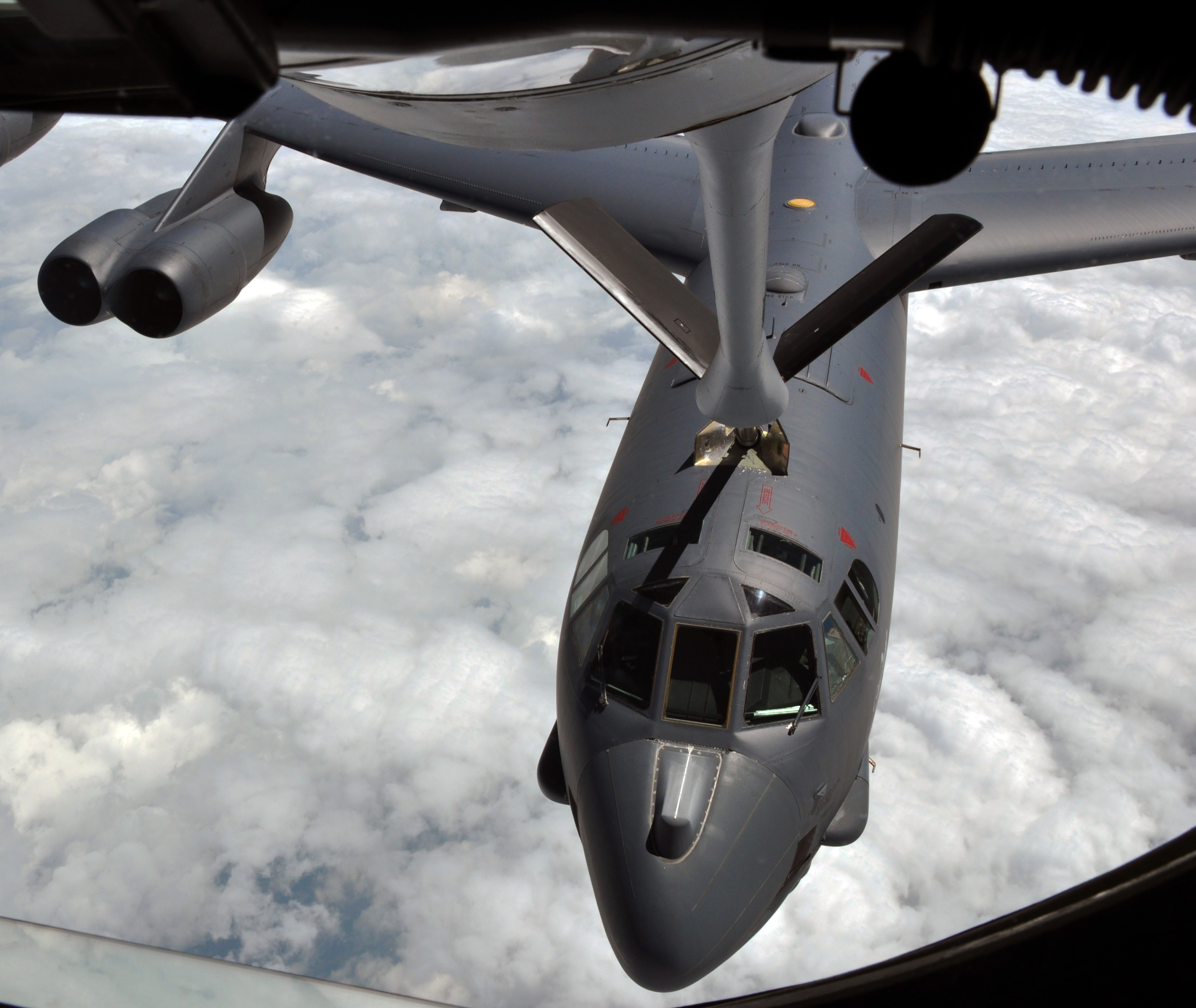 A B-52 Stratofortress assigned to the 307th Bomb Wing, Barksdale Air Force Base, La., receives fuel from a KC-135 Stratotanker from the 931st Air Refueling Group, McConnell Air Force Base, Kan., during an air refueling training exercise, May 12, 2014. The two Air Force Reserve aircrews rendezvoused in the sky over west Texas to practice air refueling techniques and to maintain proficiency. (U.S. Air Force photo by Capt. Zach Anderson/Released)